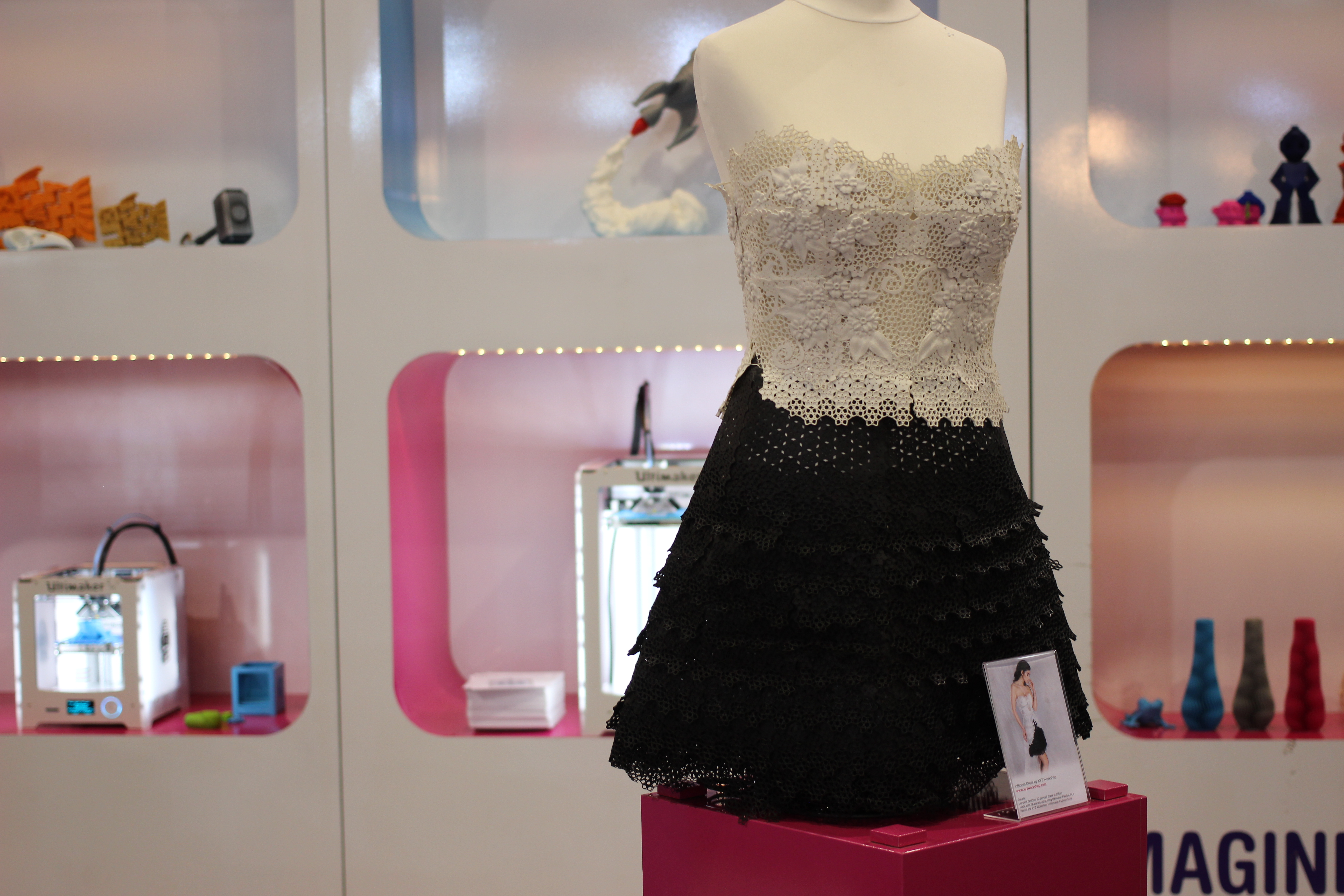 XYZprinting inBloom Dress 3D Printed Outfit